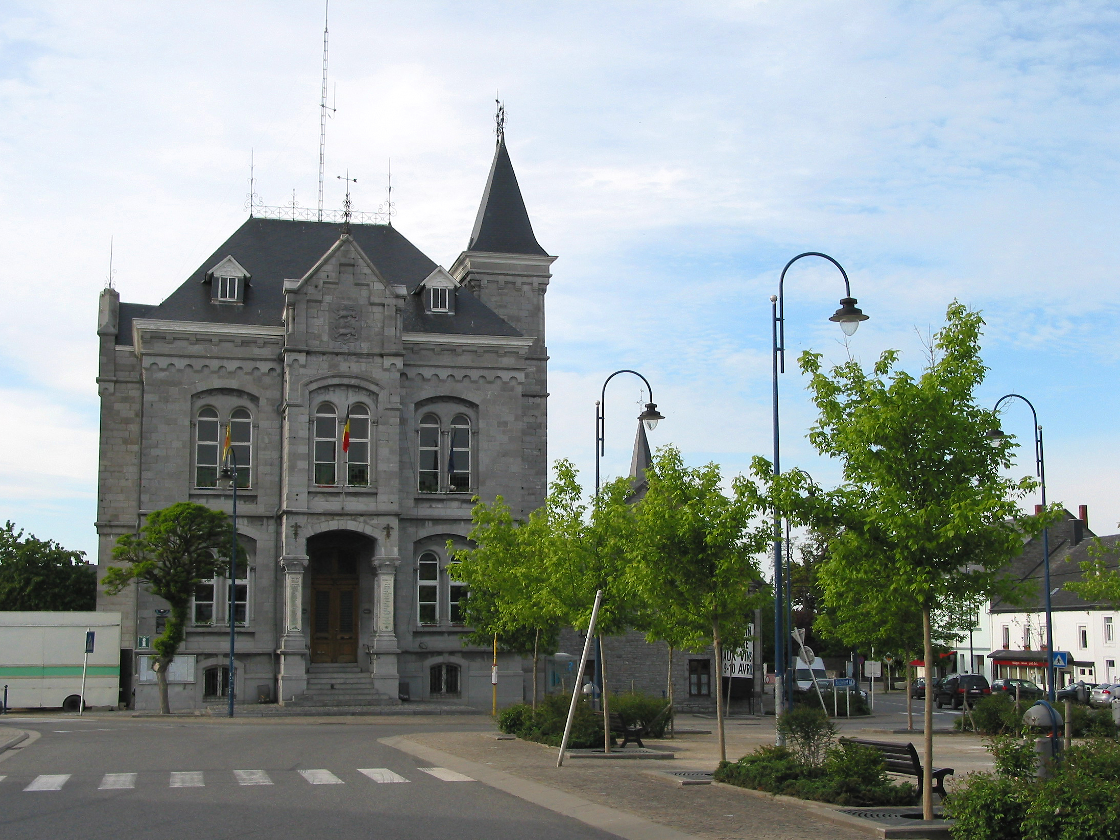 Wellin (Belgium), the town hall (19th century).